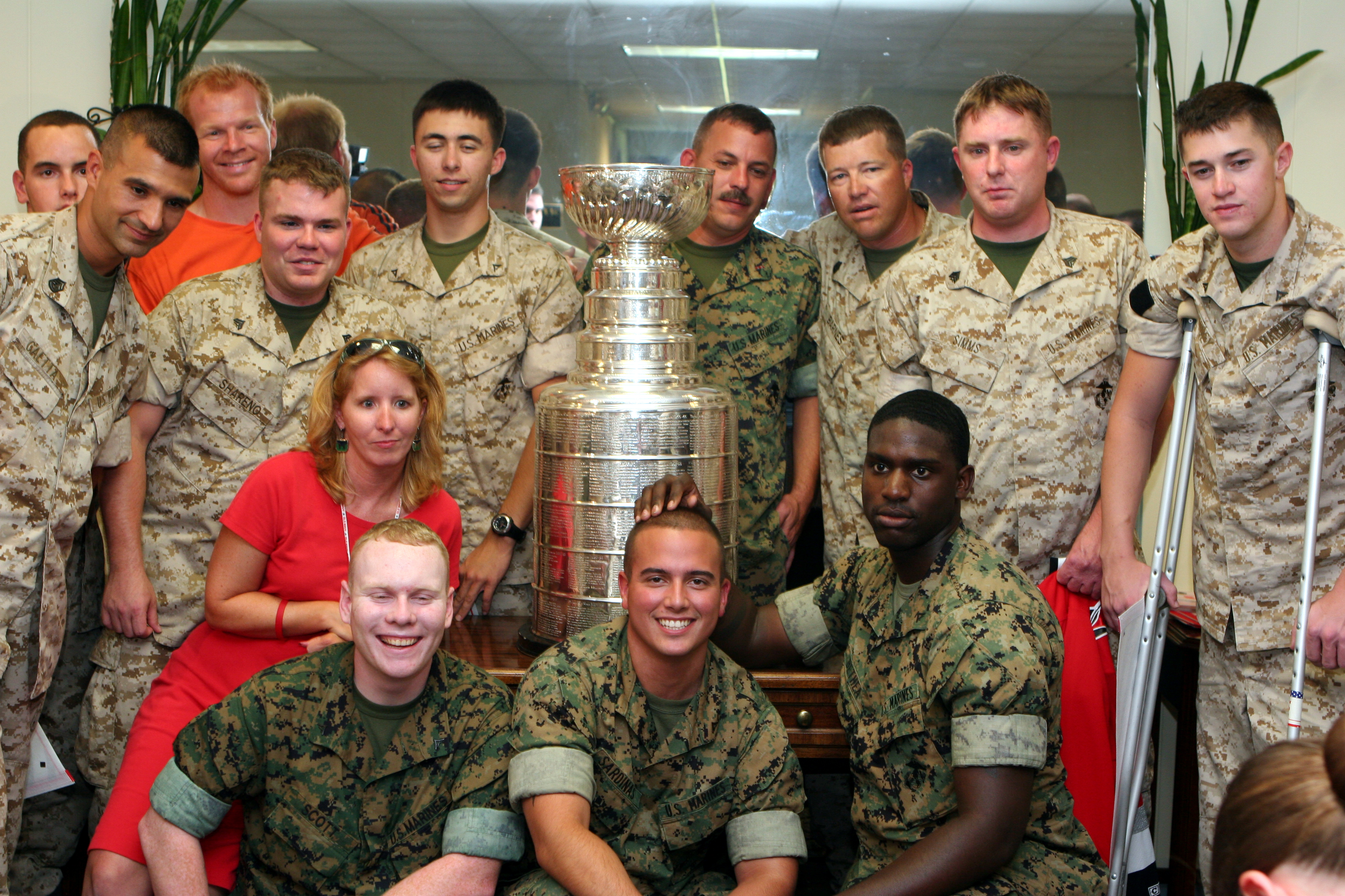 Marine Corps Base Camp Lejeune, North Carolina - Carolina Hurricanes defenseman Glen Wesley speaks to Marines wounded in the War on Terrorism at the Wounded Warrior Barracks here July 13, 2006. Wesley, a long time veteran of the National Hockey League, shared the Stanley Cup with the Marines to wish them good luck and a speedy recovery.